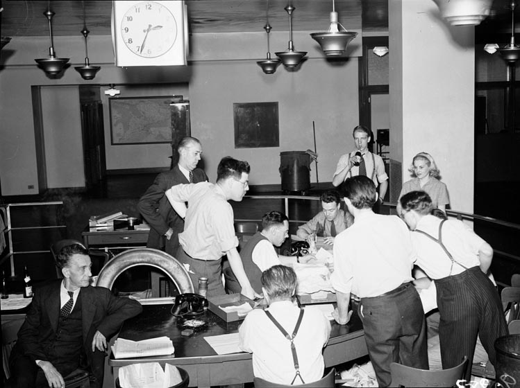 Globe and Mail newspaper staff wait for news of the D-Day invasion. Toronto, Canada.